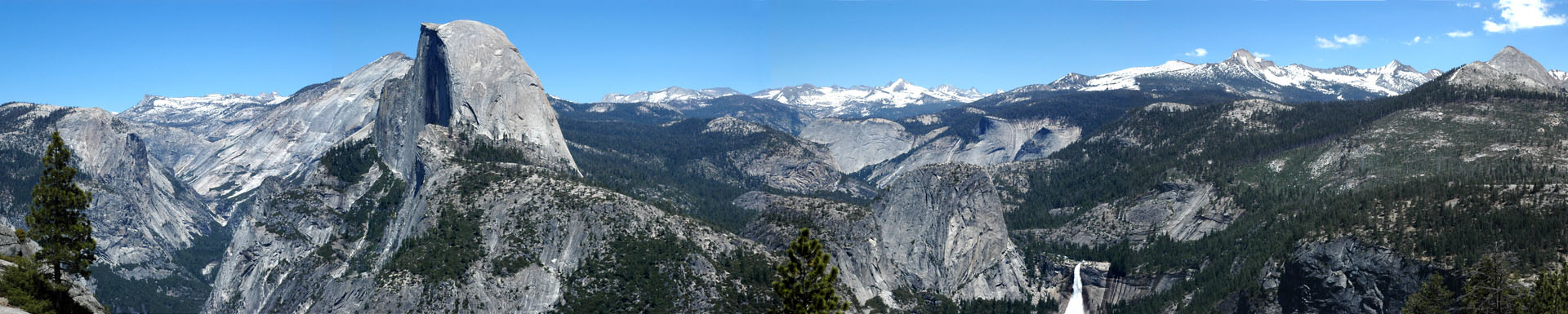 Taken from Glacier point in Yosemite National Park, California.